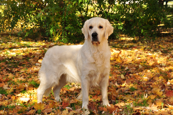 American type Golden Retriever